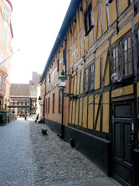 The old buildings in the block of "St Gertrud" in Malmo, Sweden.